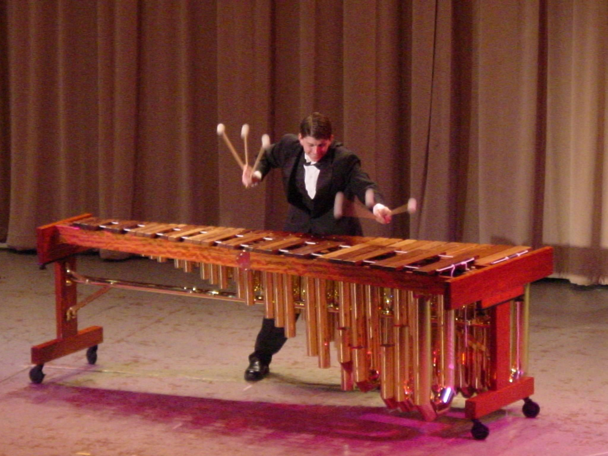 I made it myself.